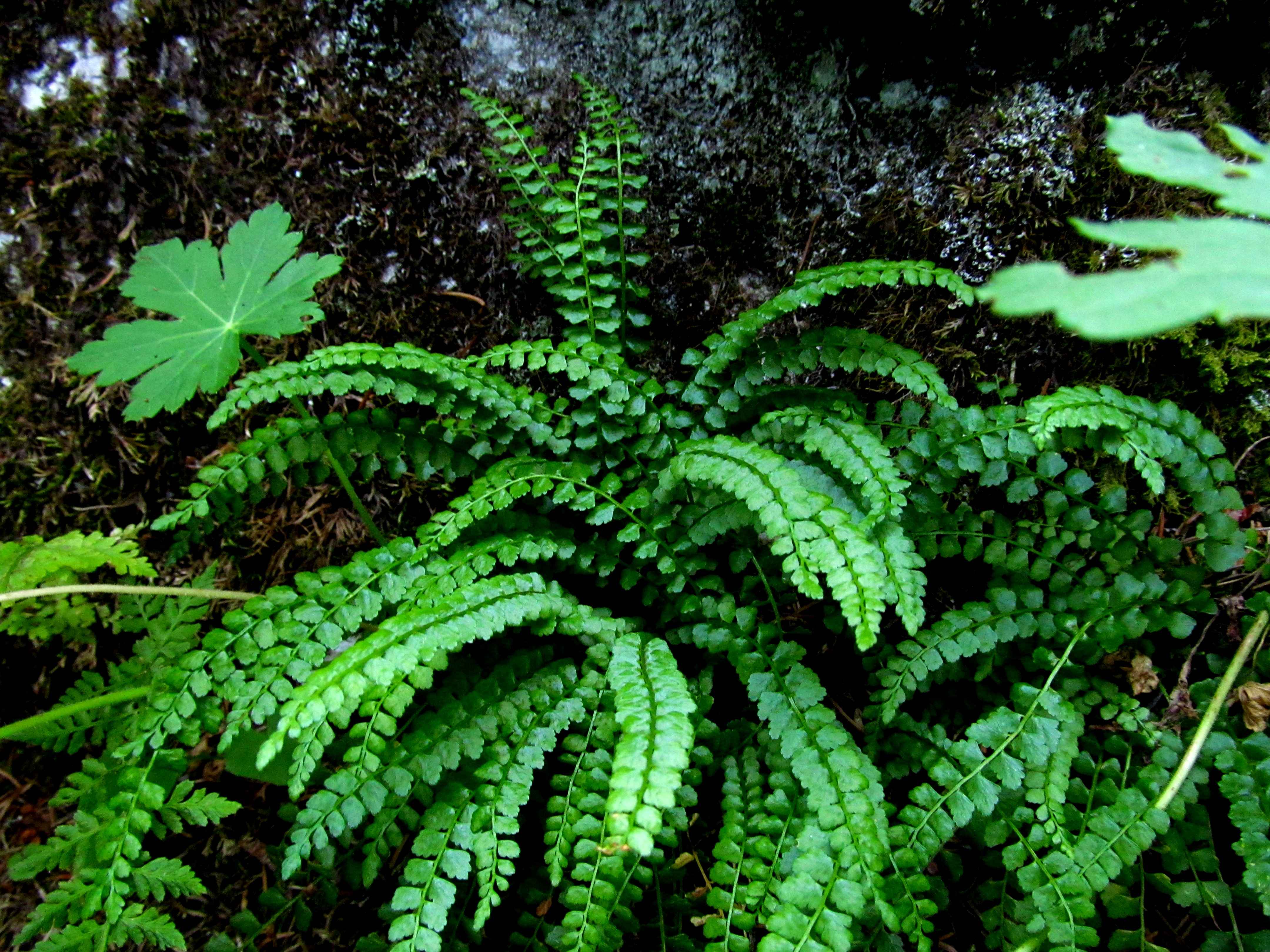 green spleenwort